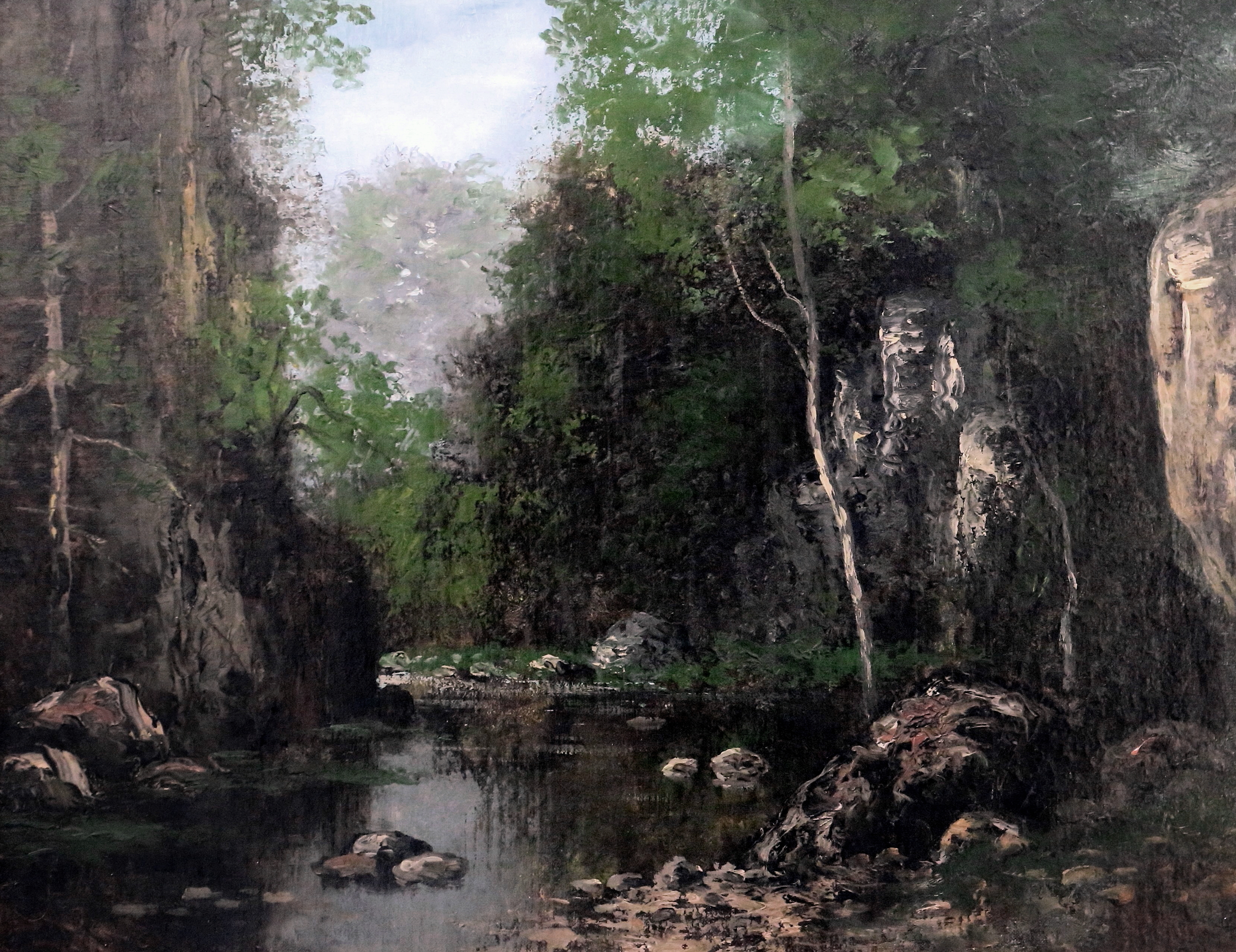 Oil painting by Cherubino Patà exhibited in the Musée Courbet at Ornans